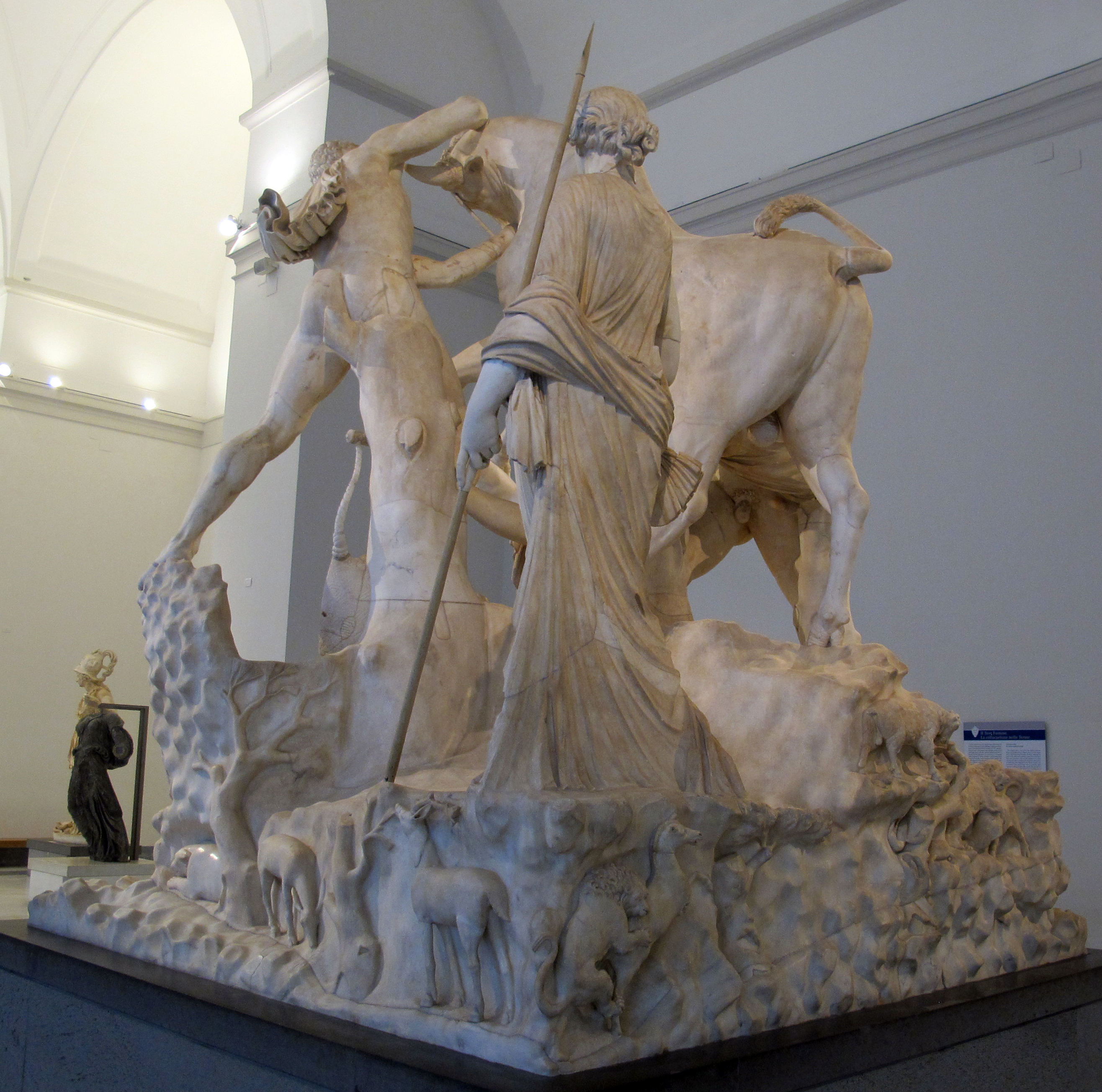 Ancient Roman statues in the Museo Archeologico (Naples)